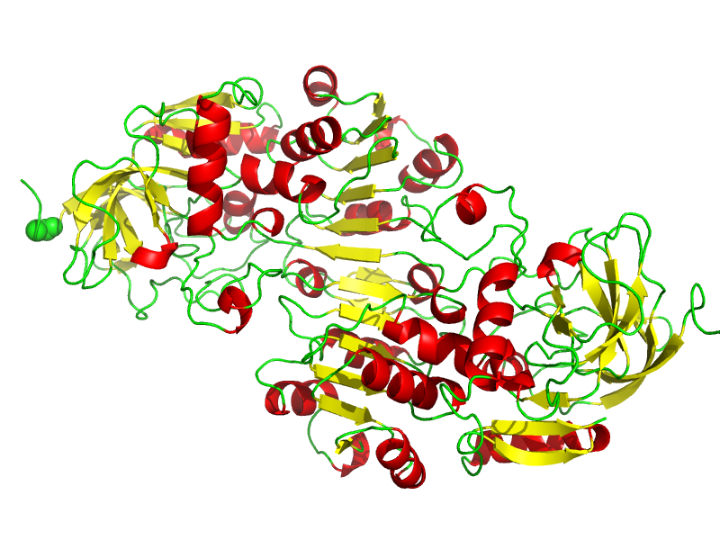 NAD/NADP binding Rossmann fold domains. The yellow arrows in the picture depict the beta-alpha folding in alcohol dehydrogenase.